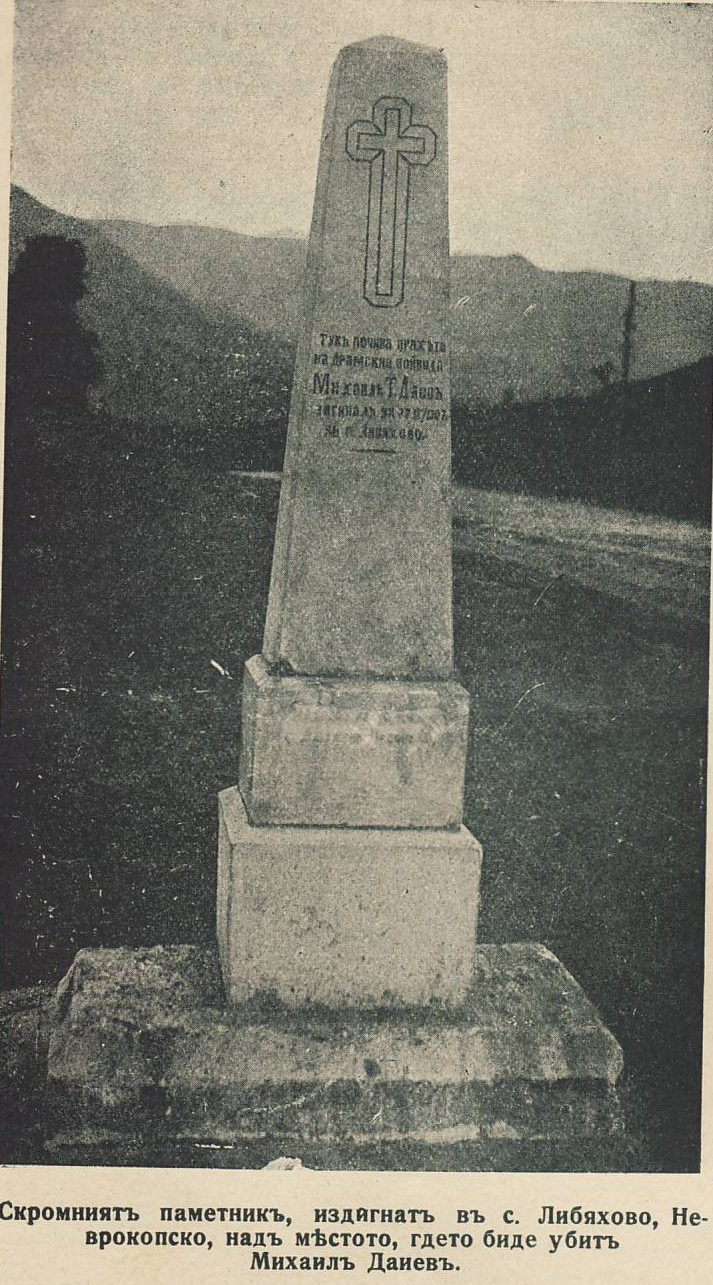 Monument of Mihail Daev build in Libyahovo during the Balkan wars